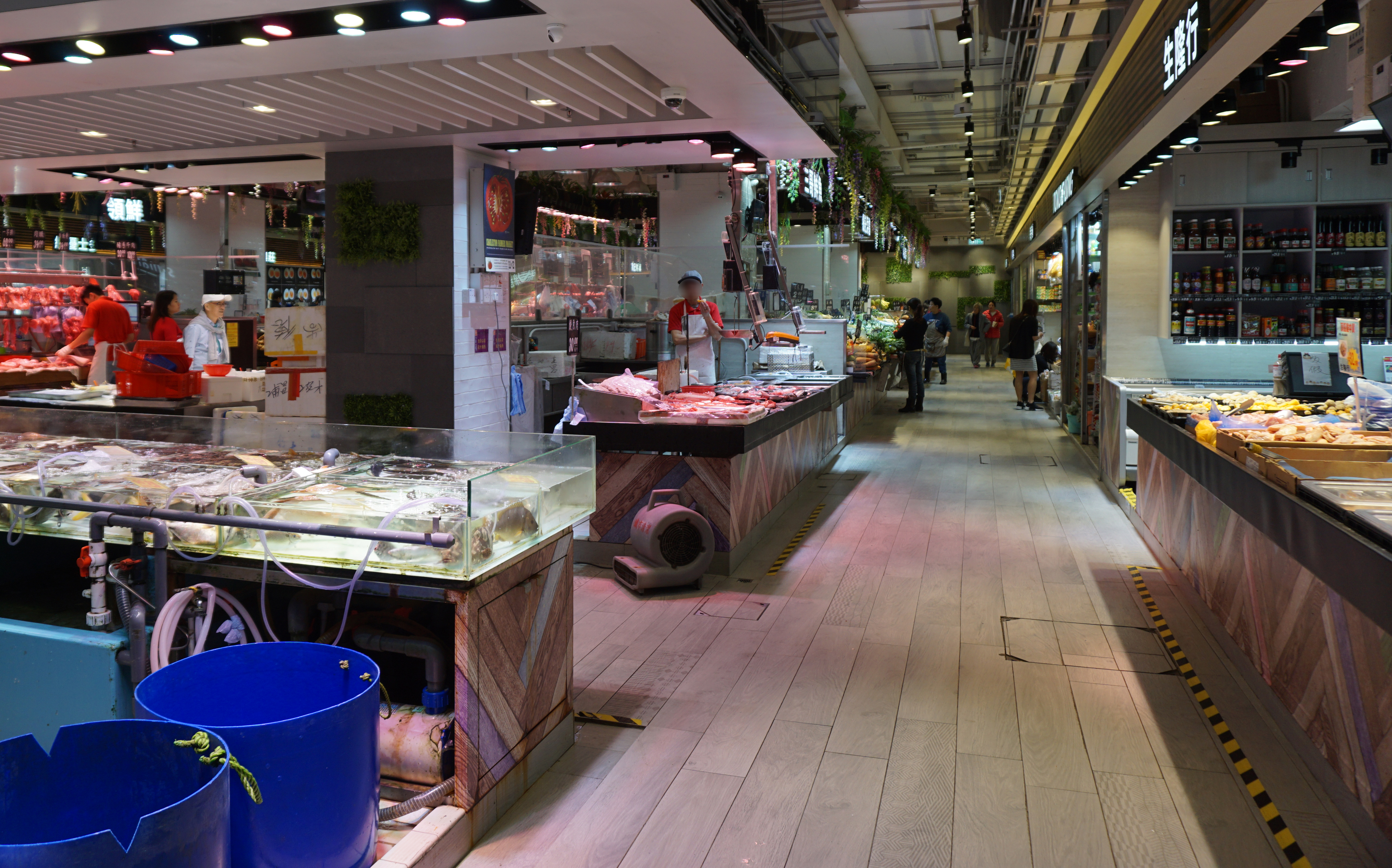 Tseung Kwan O Market in Po Lam, Hong Kong.